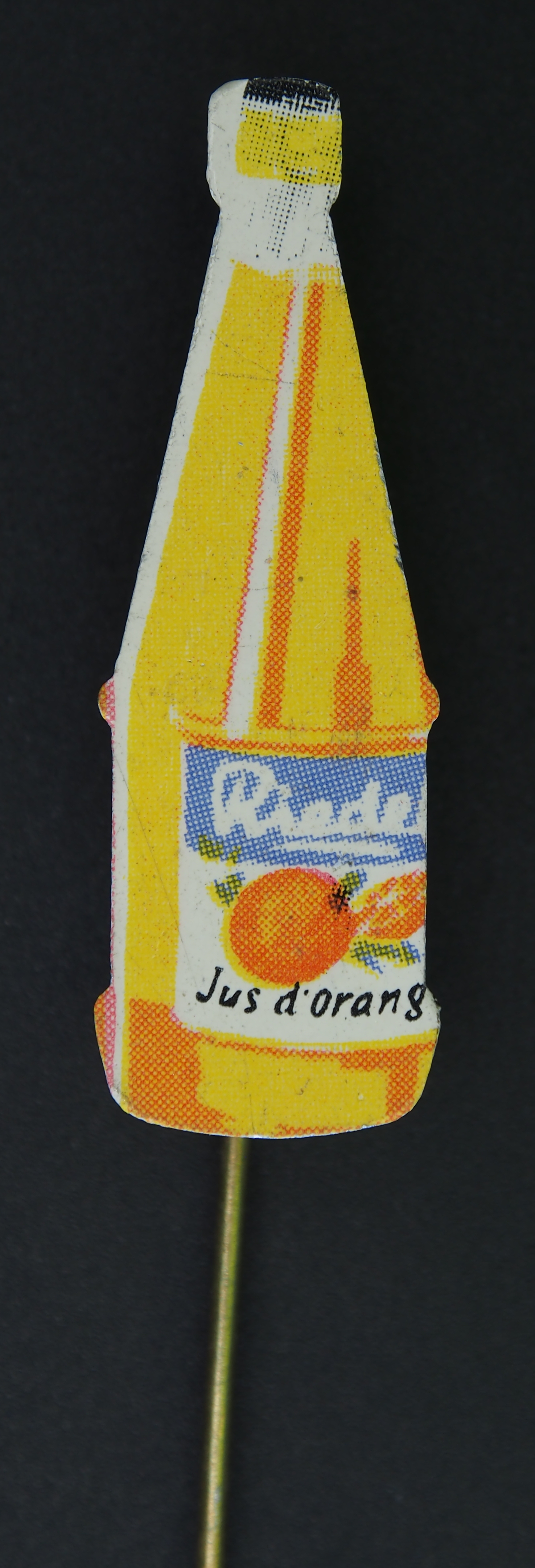 Advertising pin of an old (Dutch) product or brand.